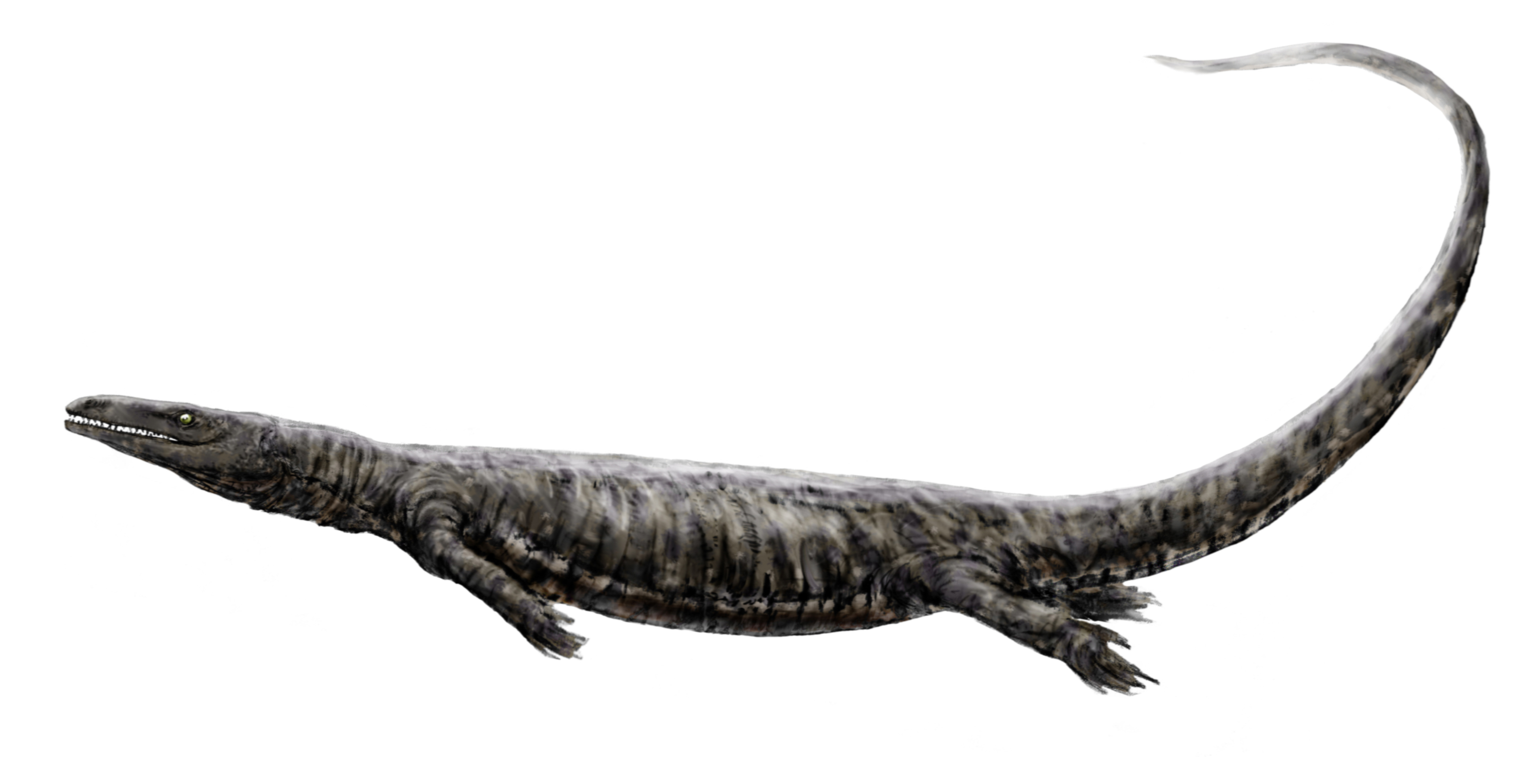 Opetiosaurus bucchichi (formerly Aigialosaurus) restoration.